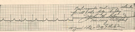 EKG from Major John Glenn, Jr., USMC, during medical debriefing by Cmdr. Seldon C. "Smokey" Dunn, USN MC aboard USS Randolph (CVS-15), after John Glenn's 3 successful orbits of the earth on 20 February 1962. Signed: "Best regards and many thanks for all the help, 'Smokey' -- John H. Glenn Jr Mercury Astronaut a good date -- 20 Feb 62"